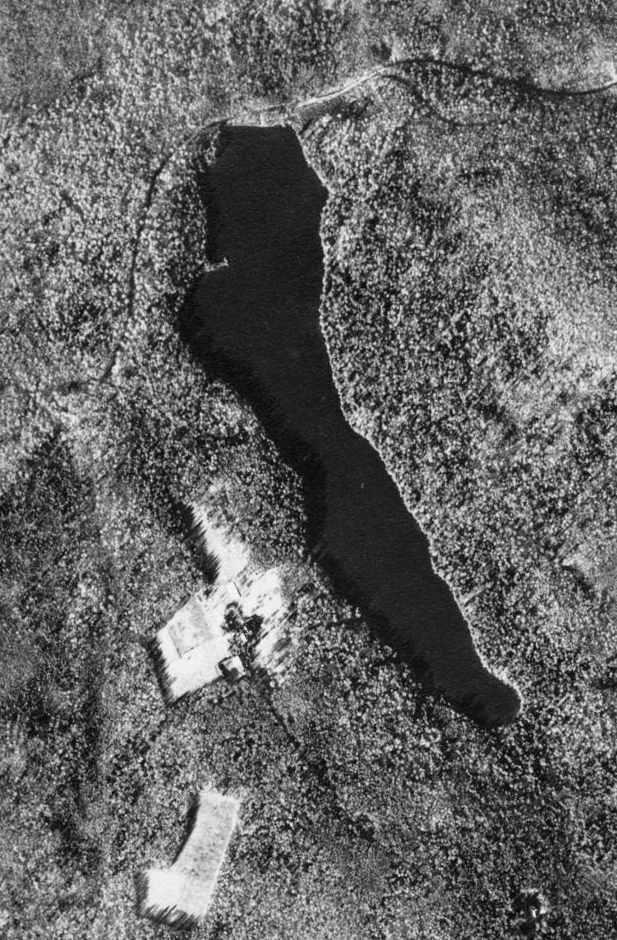 Cropped aerial photo from 1938 of Ganoga Lake in Sullivan County, Pennsylvania in the United States. The Clemuel Ricketts Mansion, on the National Register of Historic Places, is visible at lower left.